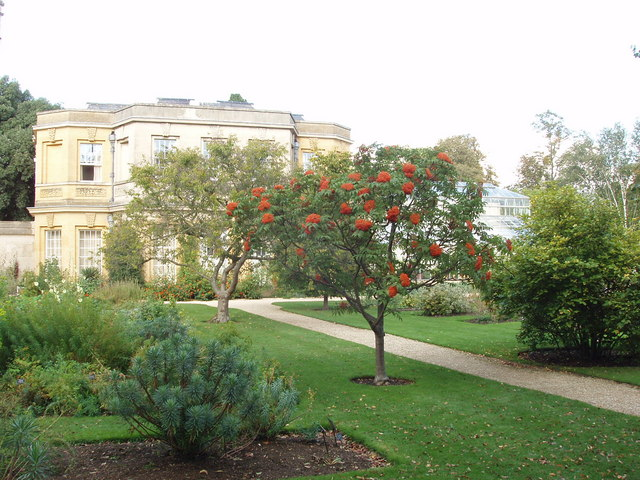 Botanic Gardens, Oxford. This is the oldest botanic garden in Great Britain. The walls and arches were completed in 1633. This view is of the buildings at the front of the garden. The tree is Sorbus Sargentiana, Sargent's Rowan, which originated from West Sichuan, China. See also 247322, 247424, 247430.